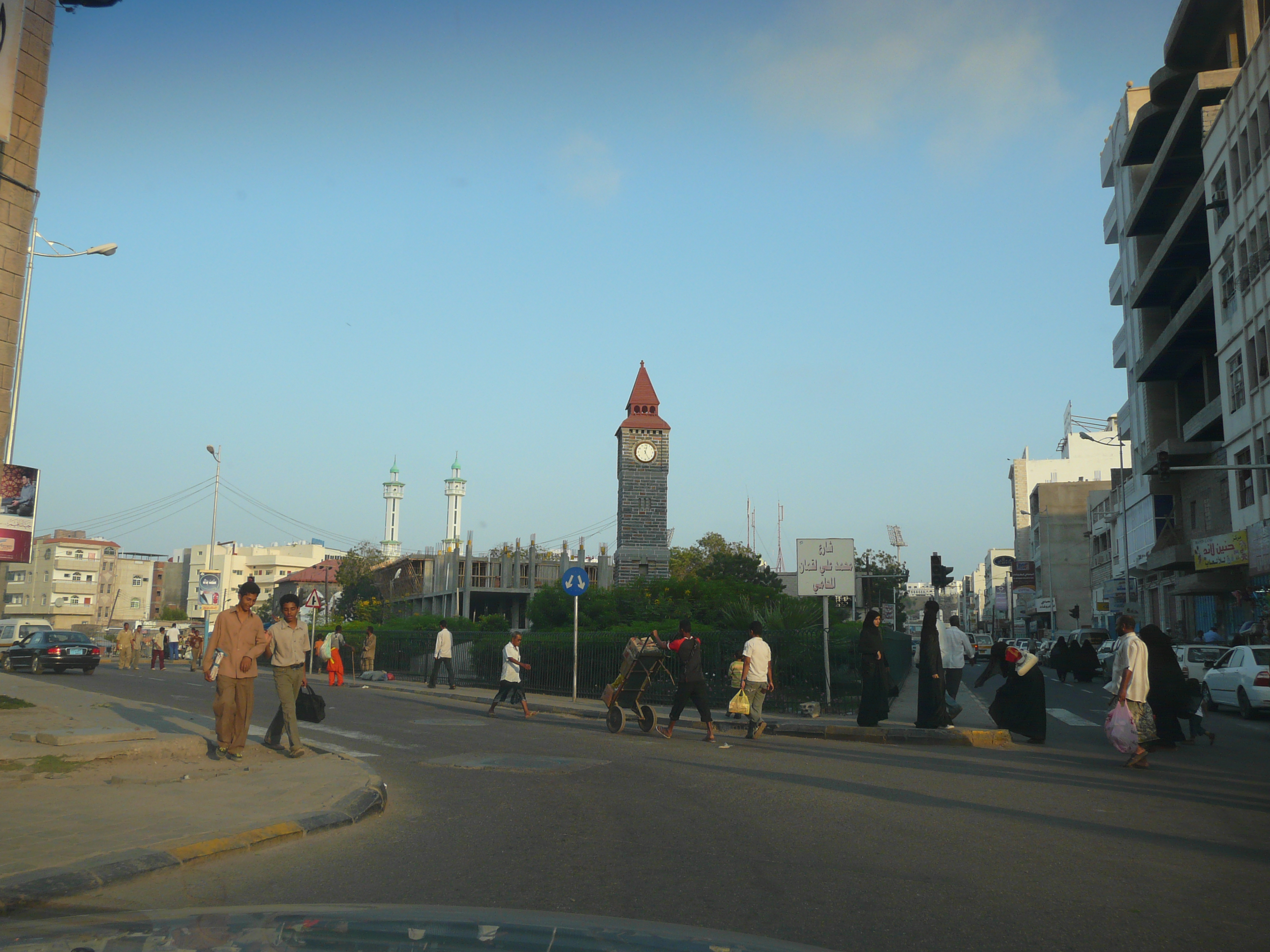 Big-Ben Aden. Photo from the car on the 20 of March, 2010.